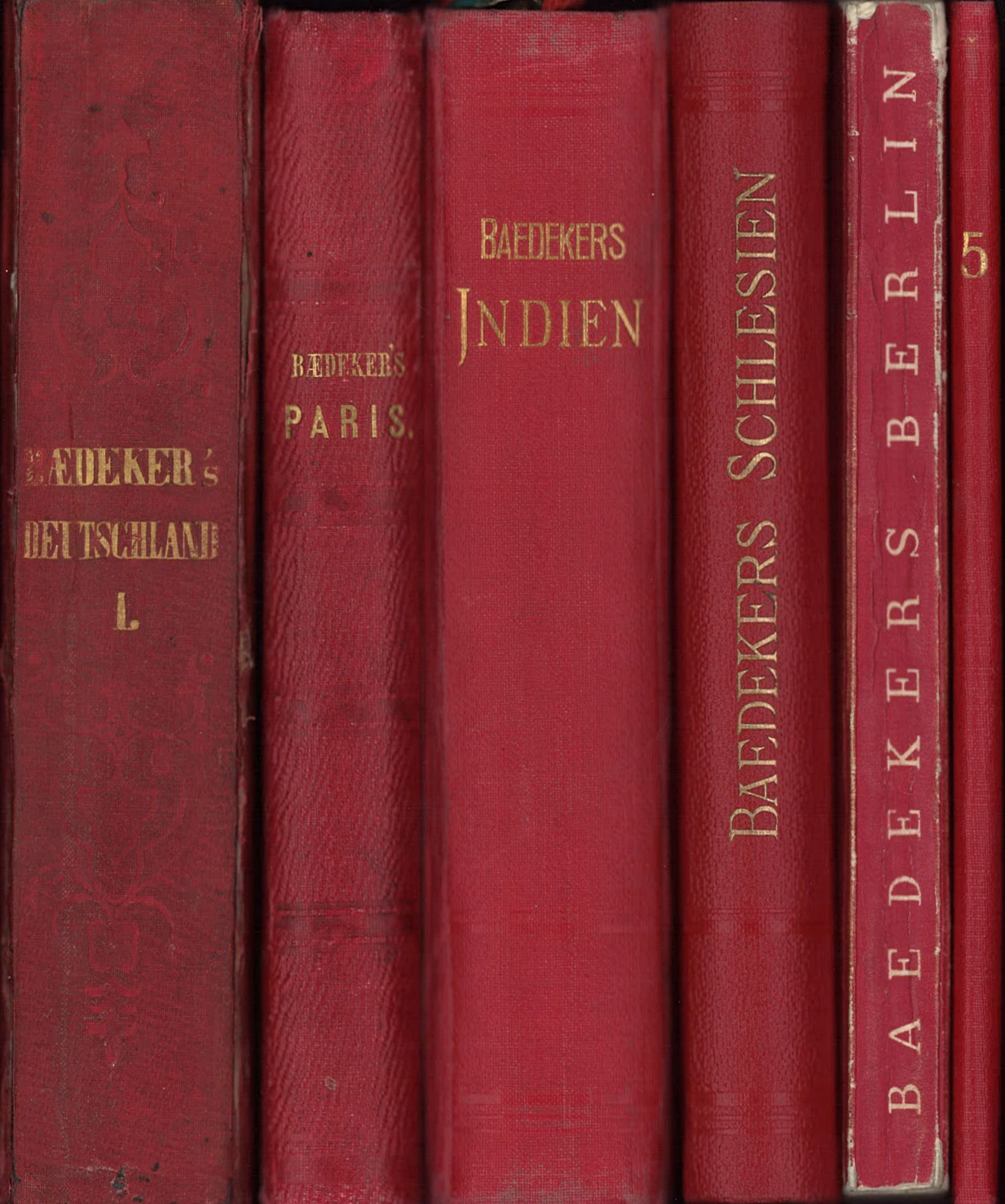 Picture of Baedeker guides' spines from different periods of publishing